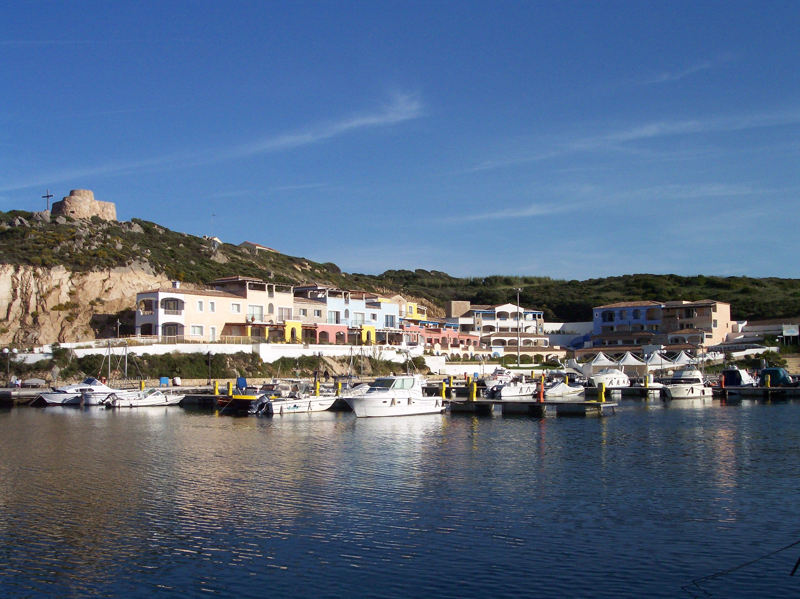 Santa Teresa di Gallura Harbour